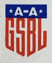 This is the logo of the All-American Girls Softball League, as scanned from a 1943 score card. The league would go on to be known as the All-American Girls Professional Baseball League.